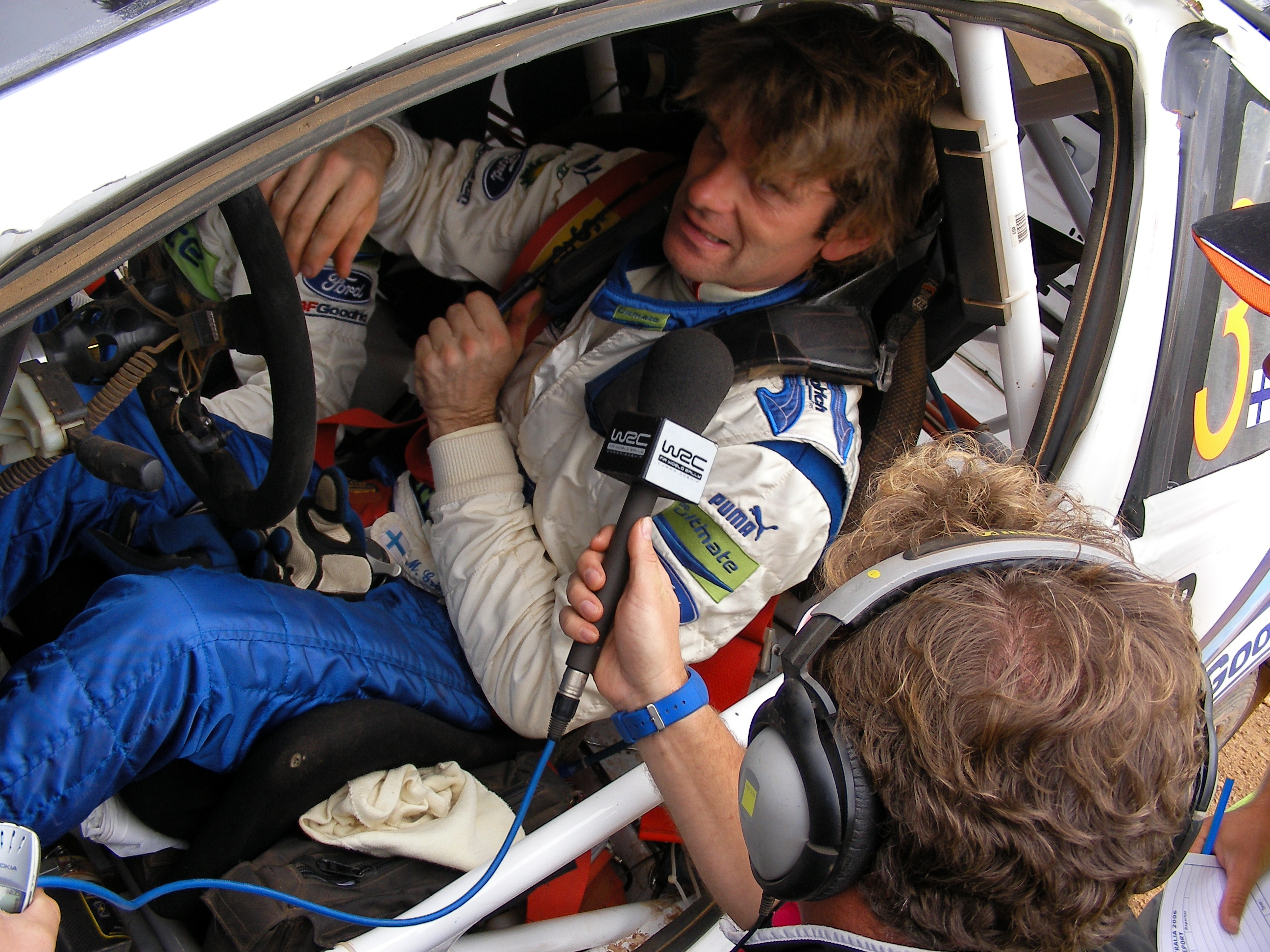 Marcus Gronhölm on Leg 3 of Telstra Rally Australia 2006. This event was one to forget for Marcus after rolling his car on SS3, losing 10 minutes to the leading car of Chris Atkinson.